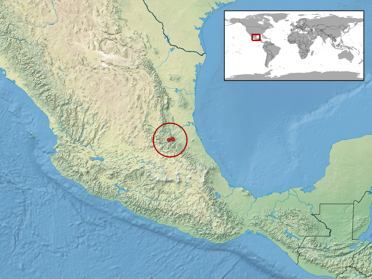 geographic distribution of Chersodromus rubriventris (Native: Mexico)